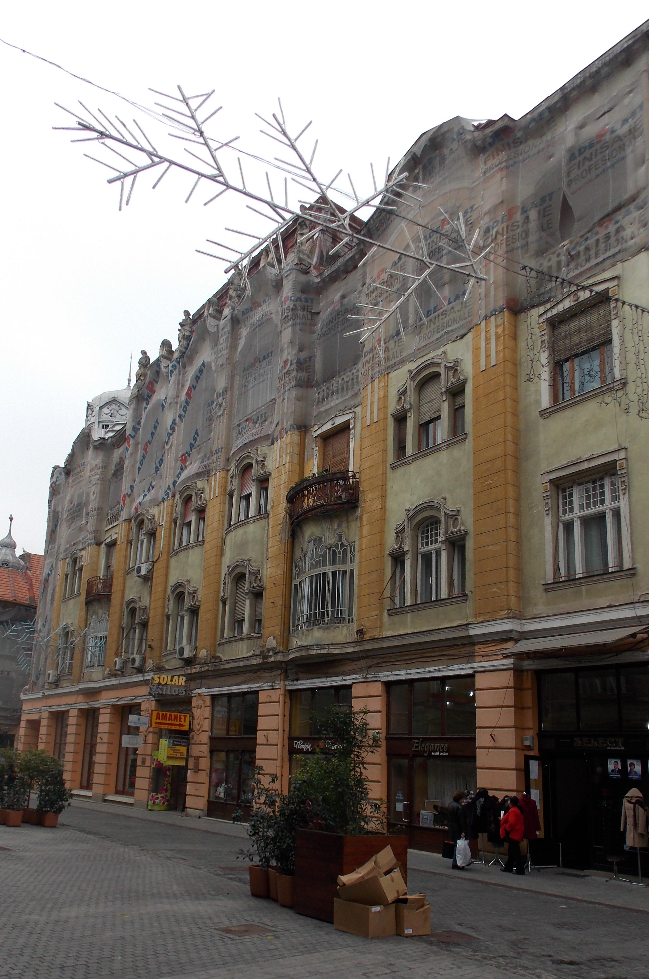 Apollo Palace - Oradea, RomaniaRomână: Palatul Apollo - Oradea